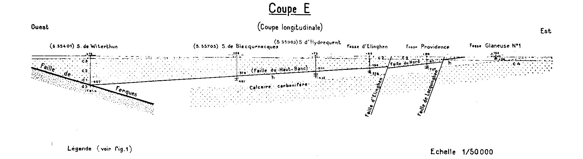 More informations in the French article Mines du Boulonnais.